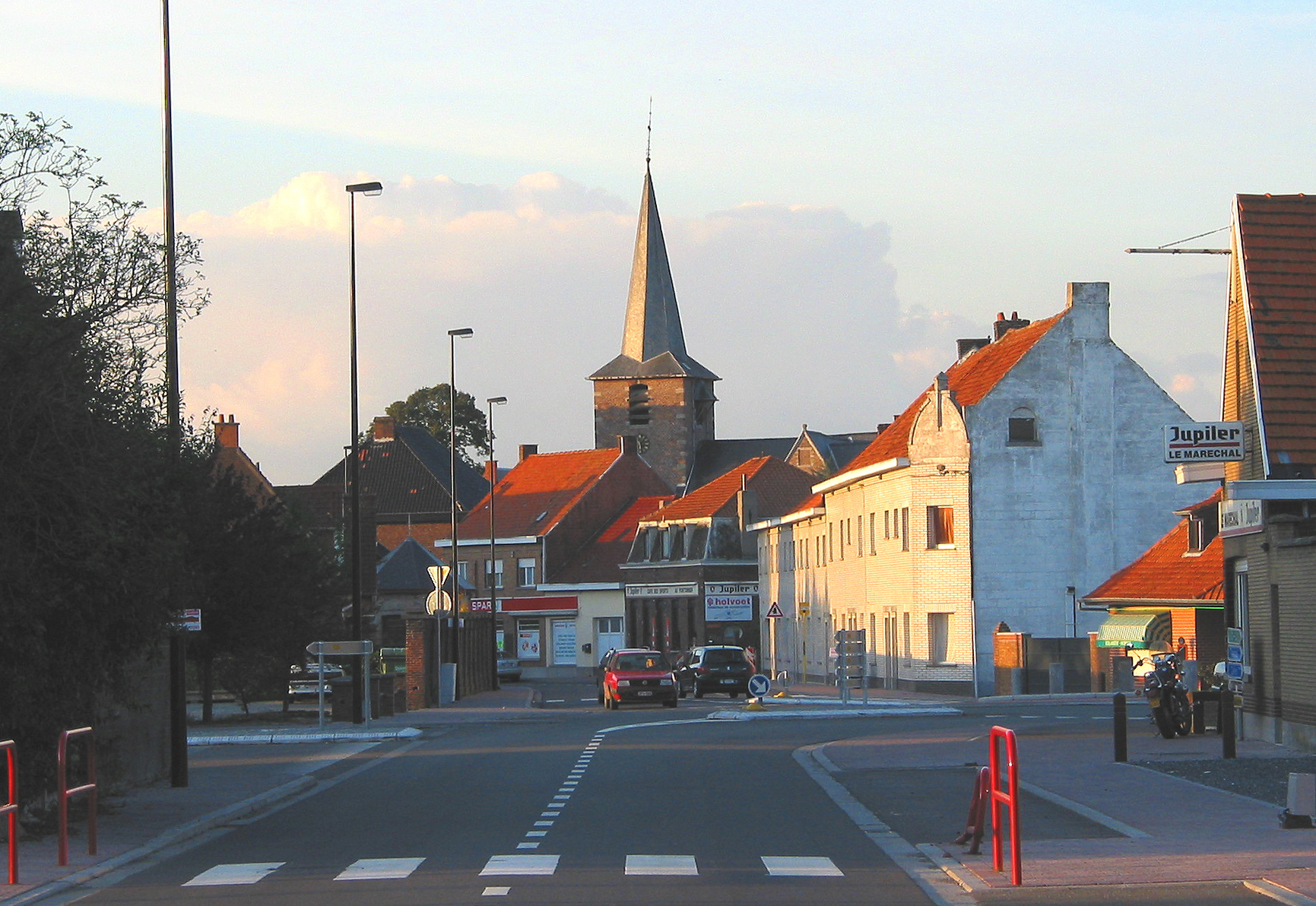 Escanaffles (Belgium), road junction of the Provinciale, Pont à l’Haye et Monseigneur Descamps streets.